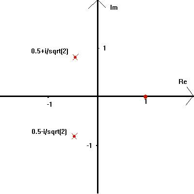 The 3rd roots of unity, as represented on an Argand diagram.